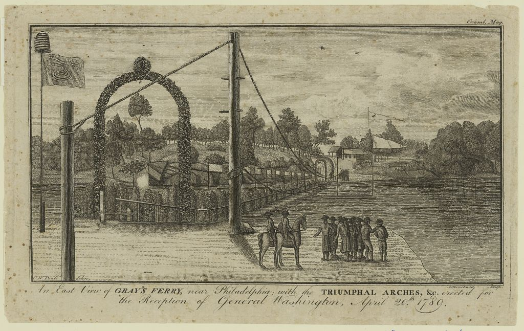 A contemporary drawing looking westward at the pontoon bridge at Gray's Ferry on the Schuylkill River, showing the triumphal arches and other decorations for the arrival of General George Washington in Philadelphia, Pennsylvania on April 20, 1789. Published in The Columbian magazine in May 1789.